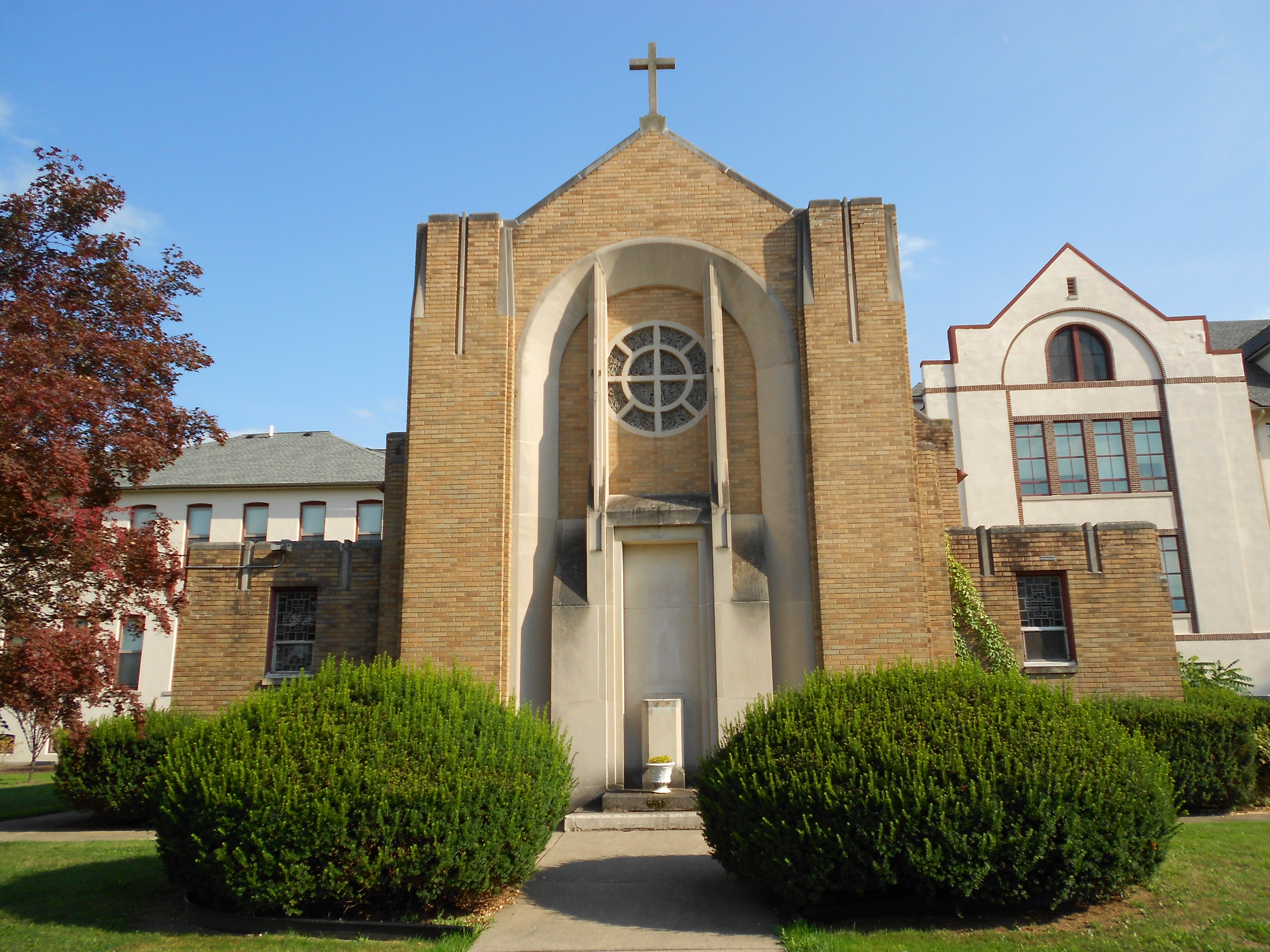 Church at St. Stanislaus Institute, on the NRHP since December 30, 2008, at 141 Old Newport Street, Newport Township, Luzerne County, Pennsylvania. Just outside the small town of Nanticoke.